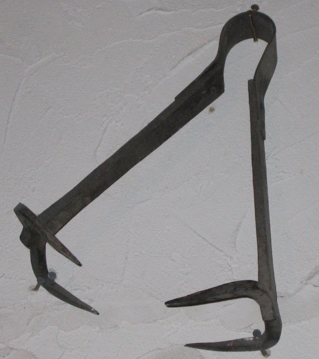 Breast ripper (15th century) at the torture museum in Freiburg im Breisgau